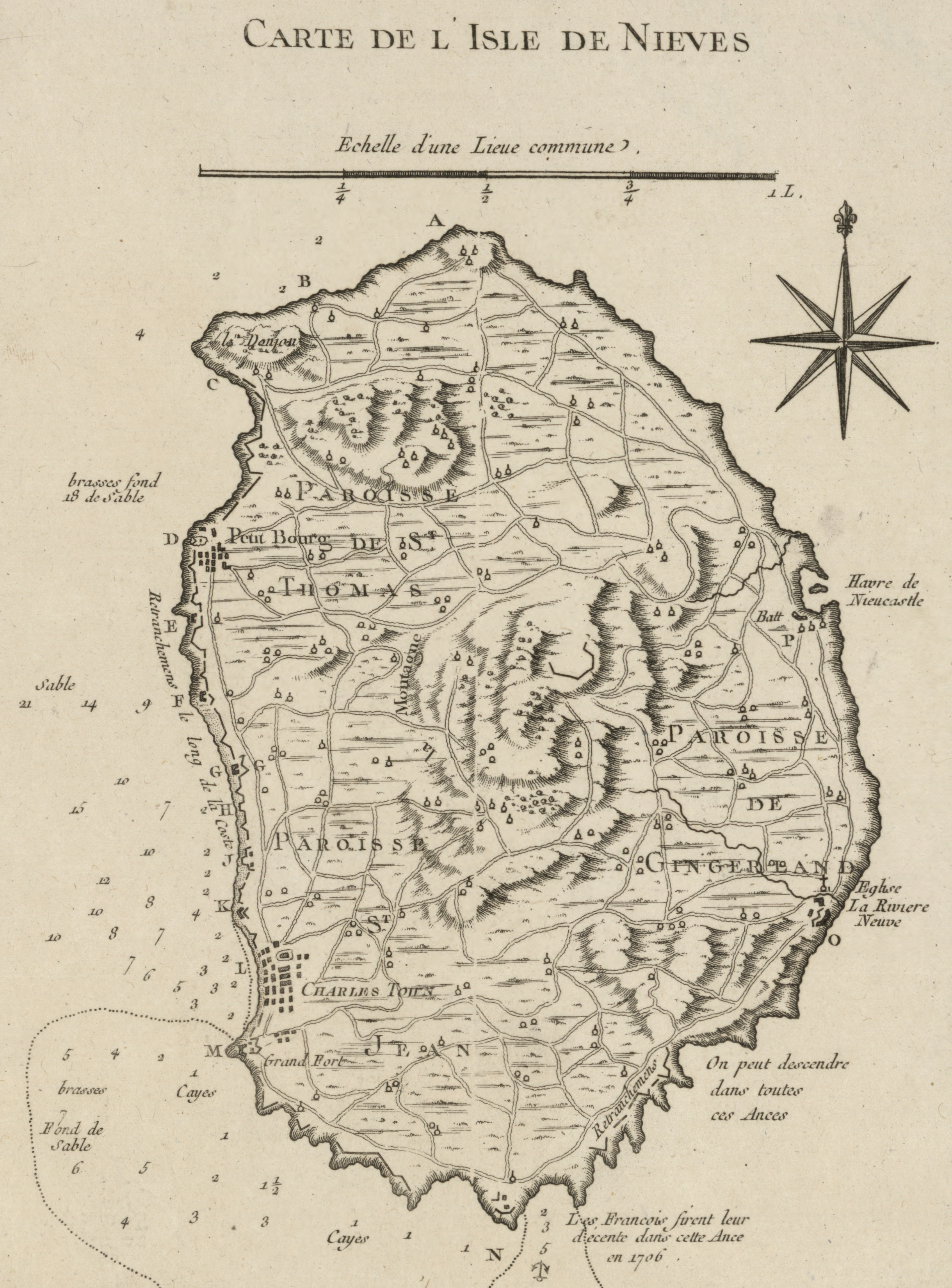 Nevis historical map Title: Carte de l'isle de Nieves. Contributor Names: Bellin, Jacques Nicolas, 1703-1772. Created / Published: Paris, 1764 Notes: Scale ca. 1:50,000. Relief shown by hachures. Depths shown by soundings. "Tome I, no. 84." From the author's Le petit atlas maritime. 1764. LC Maps of North America, 1750-1789, 1995 Available also through the Library of Congress Web site as a raster image. Vault AACR2 Medium: map 22 x 16 cm. Call Number: G5042.N4 1764 .B4 Repository: Library of Congress Geography and Map Division Washington, D.C. 20540-4650 USA dcu Digital Id: Library of Congress Catalog Number: 74691008